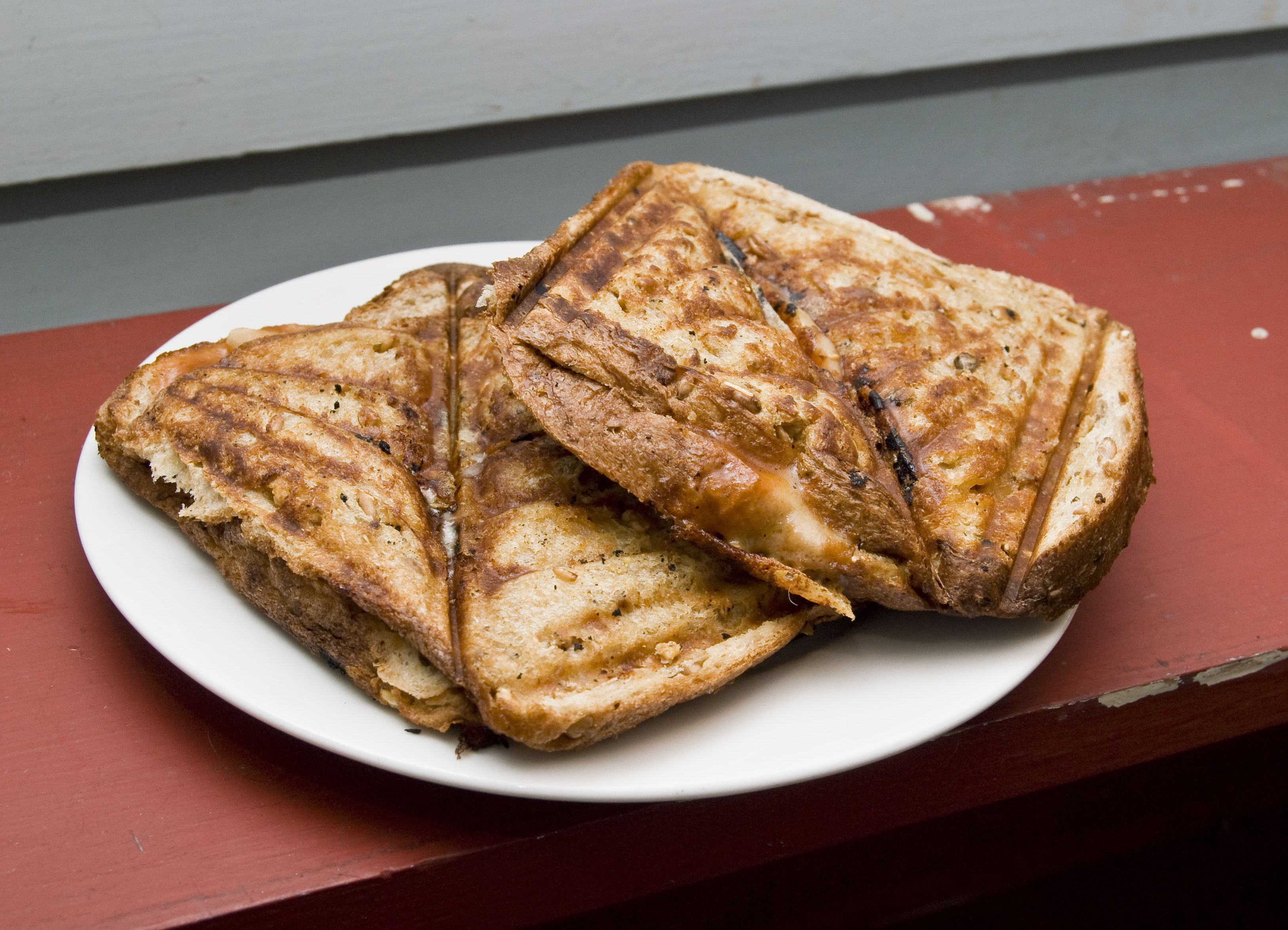 Jaffles made in an old Breville jaffle iron / sandwich maker. Inside the toasted multi-grain bread is melted cheese, tomato slices and (tinned) baked beans.